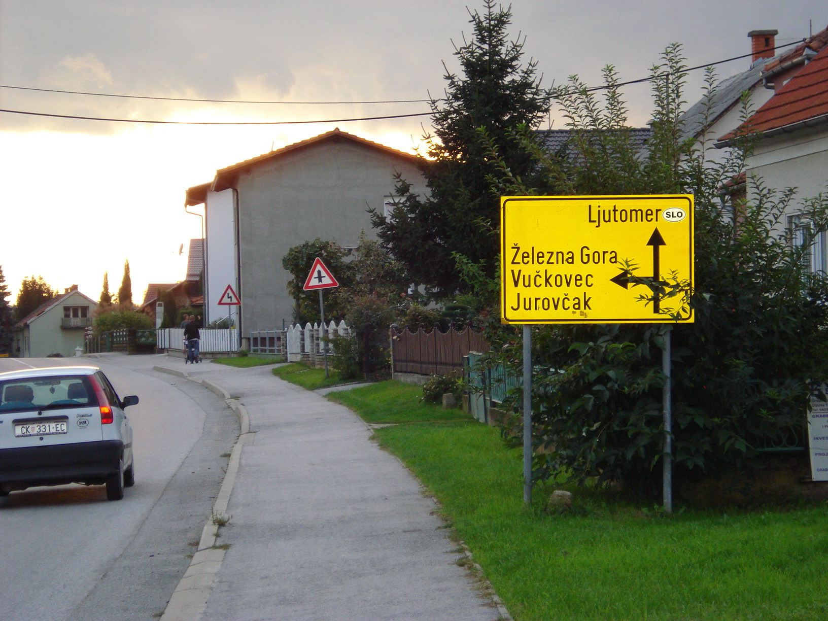 Sveti Martin na Muri (Međimurje County, Croatia) - signpost at village limits